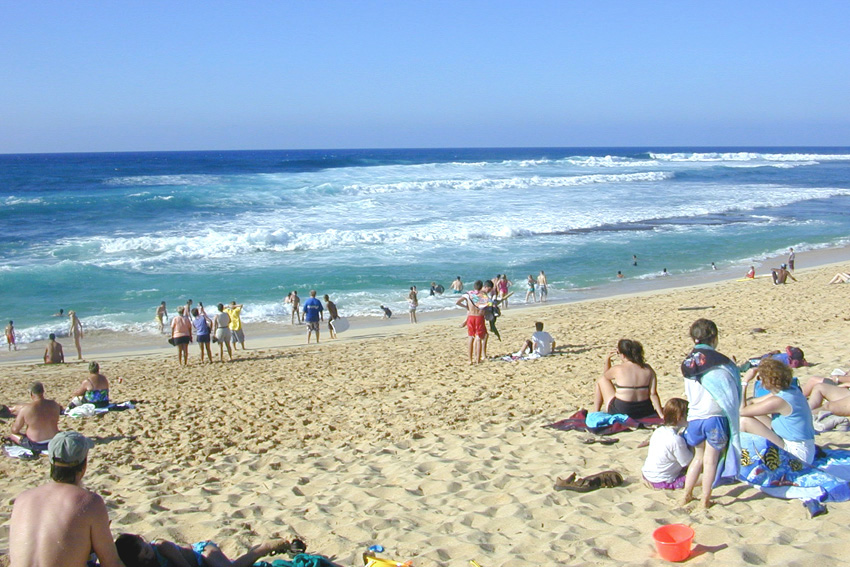 Beach at Sunset Beach, O'ahu, Hawai'i.